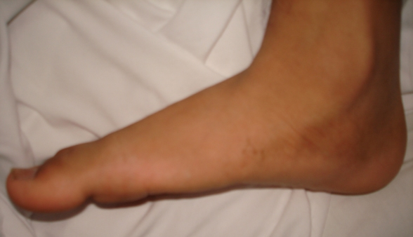 Ben Ojeda